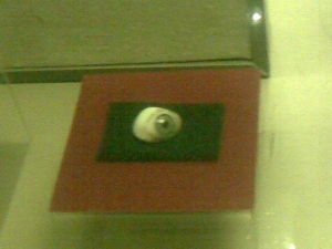 The prosthetic eye of Bulgarian poet Geo Milev (1895-1925)